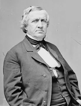 John Parker Hale.